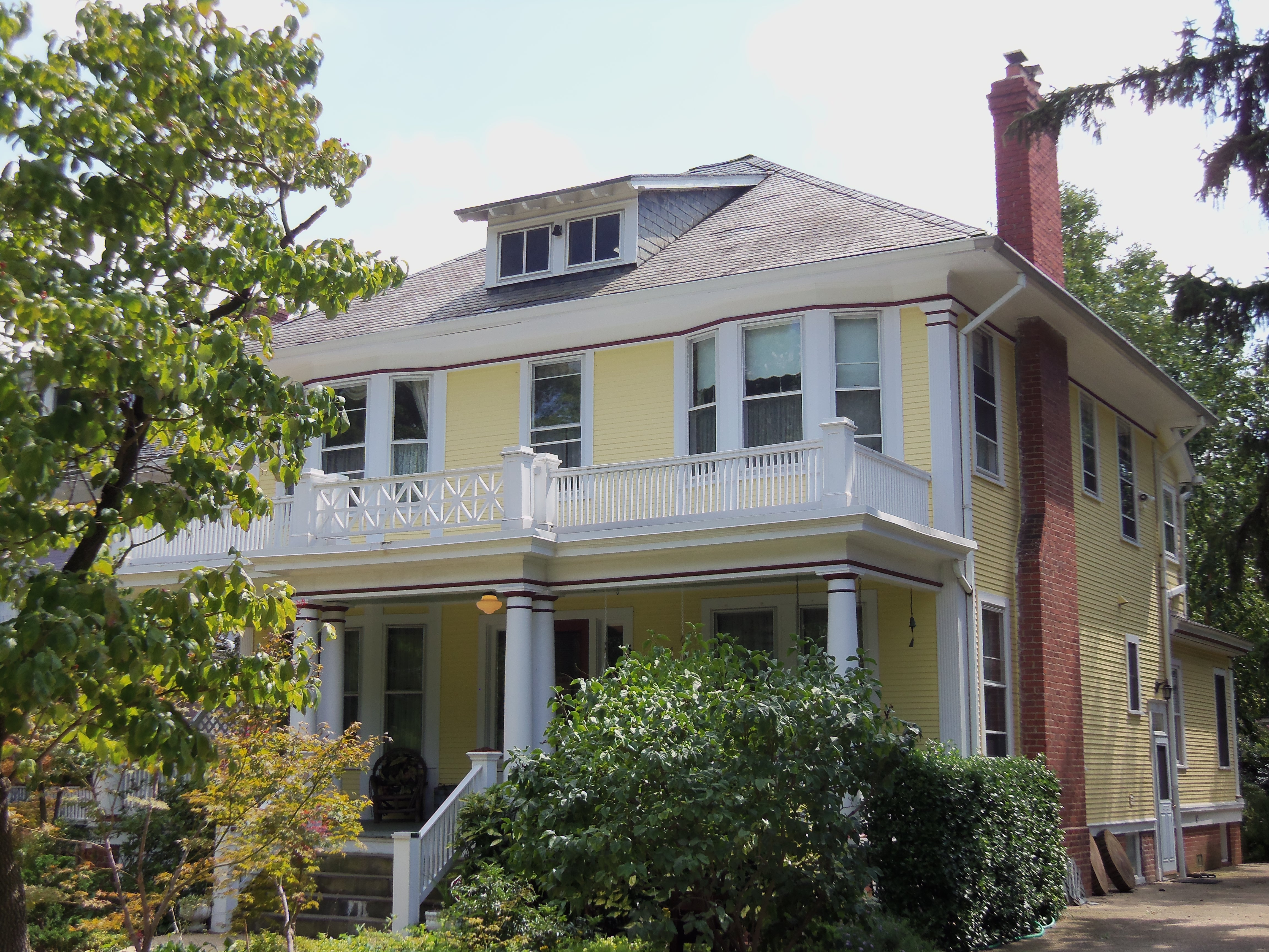 A house on Cedar St. NW, Washington, DC in the Takoma Historic District.